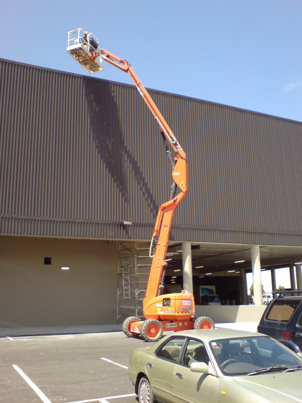 An lift platform being used to work on the outside of Westfield Albany during the last stages of construction in October 2007.